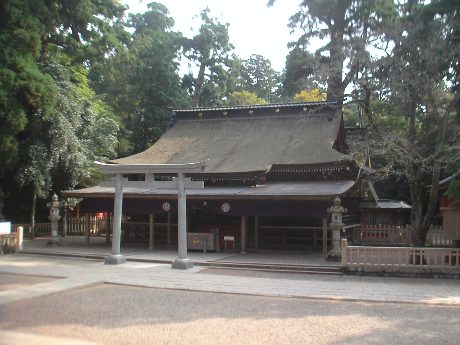 Front shrine, Kashima-jingū